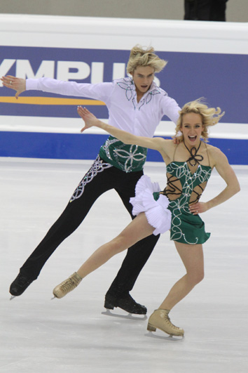 Pernelle Carron and Lloyd Jones at the the 2010 World Championships.